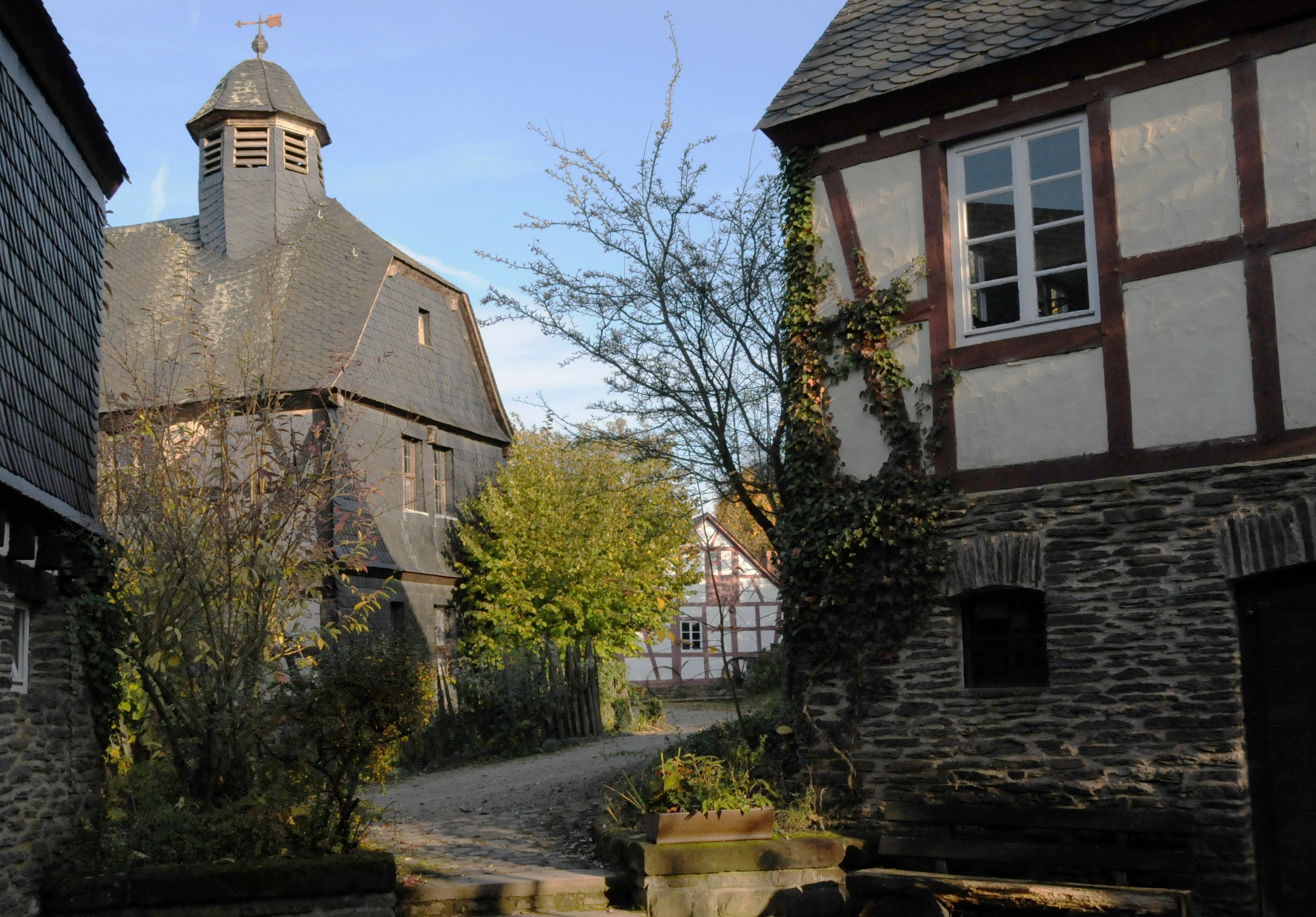 Hunsrueck village in the open air museum Roscheider Hof, Konz Germany Der Hunsrückweiler im Freilichtmuseum Roscheider Hof Konz Deutschland